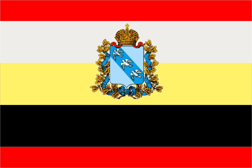 Flag of Kursk Oblast 1996. (original)